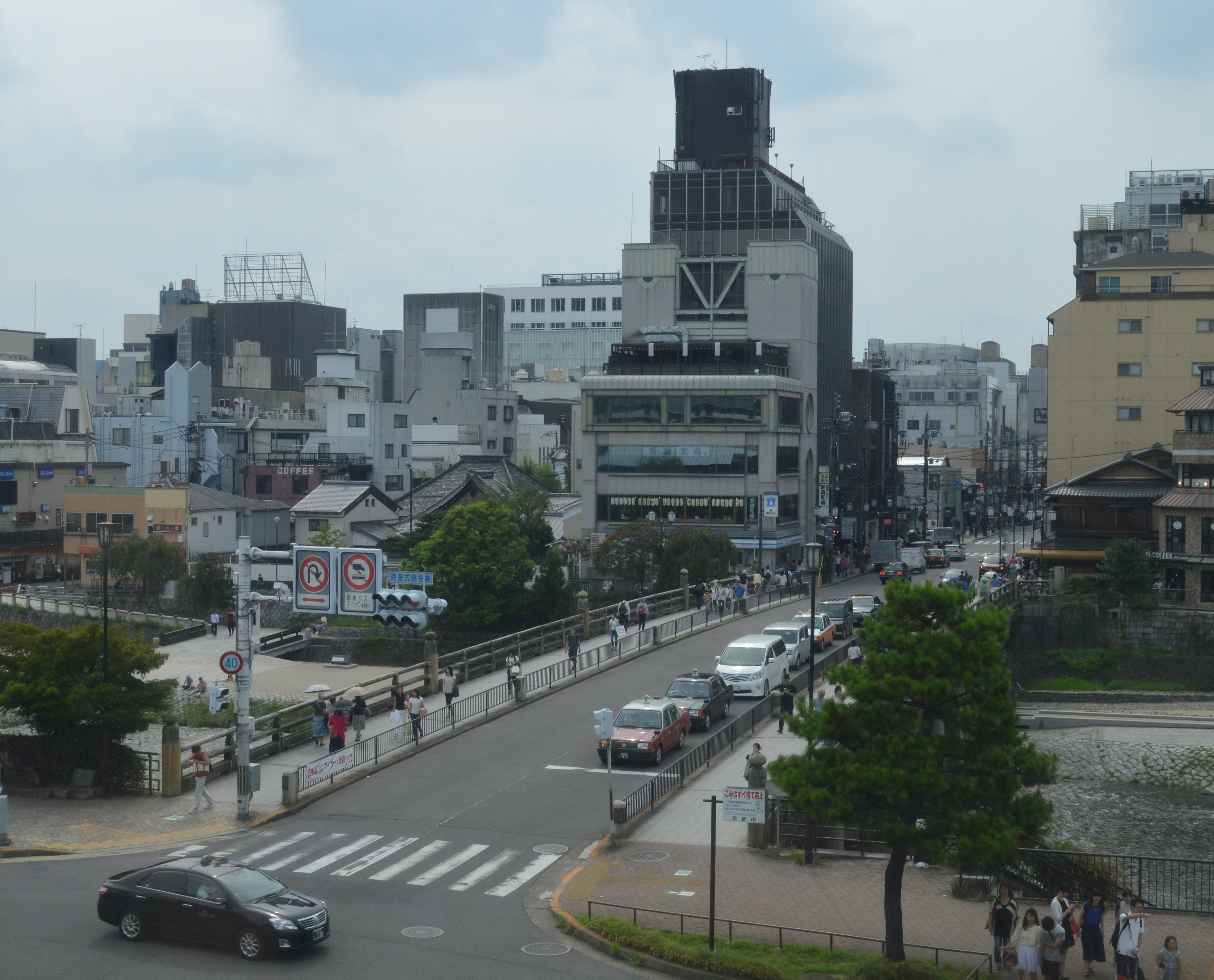 京都の三条大橋